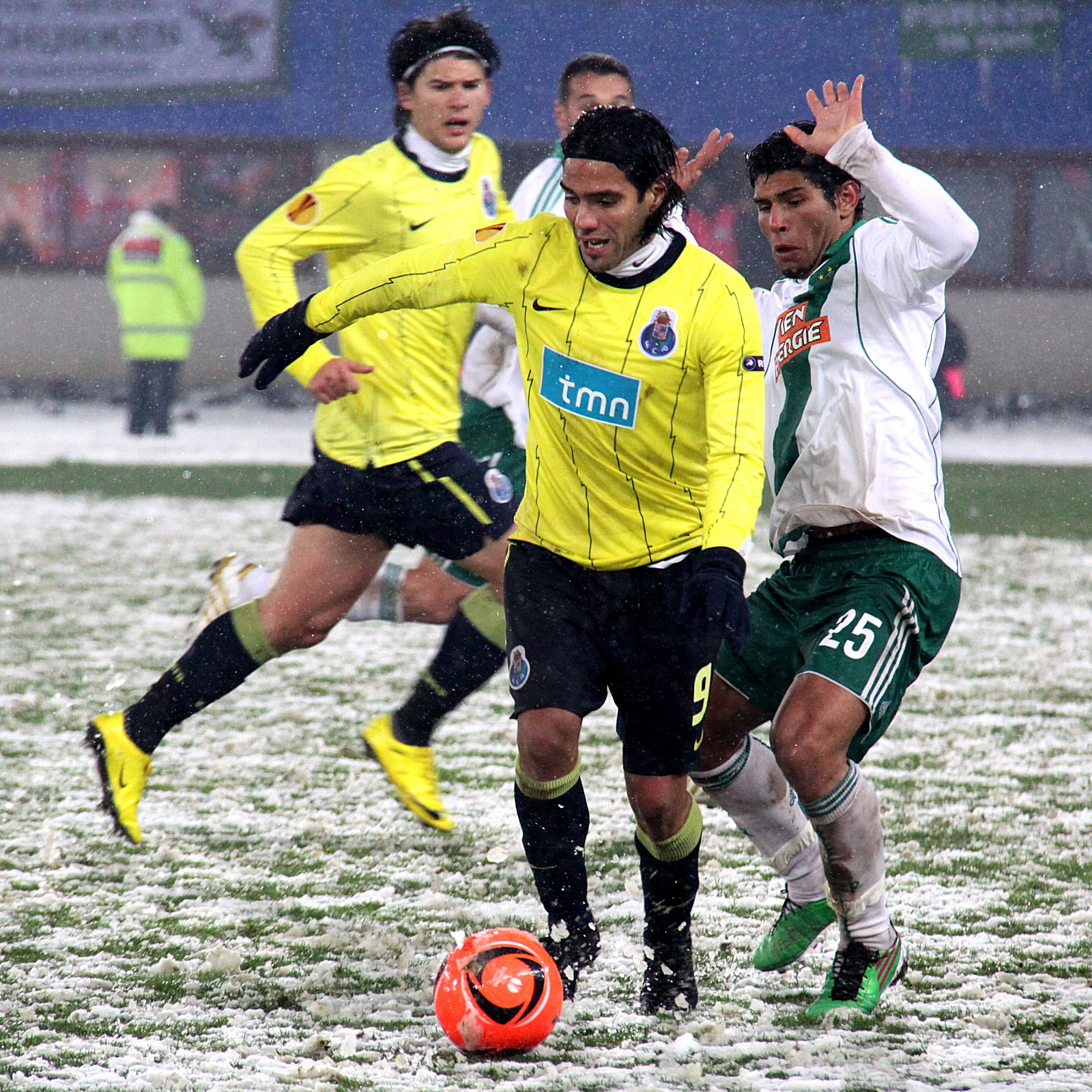 2010–11 UEFA Europa League - SK Rapid Wien vs. F.C. Porto 1:3 Ernst-Happel-Stadion (Vienna) – Radamel Falcao (left), Tanju Kayhan (right).